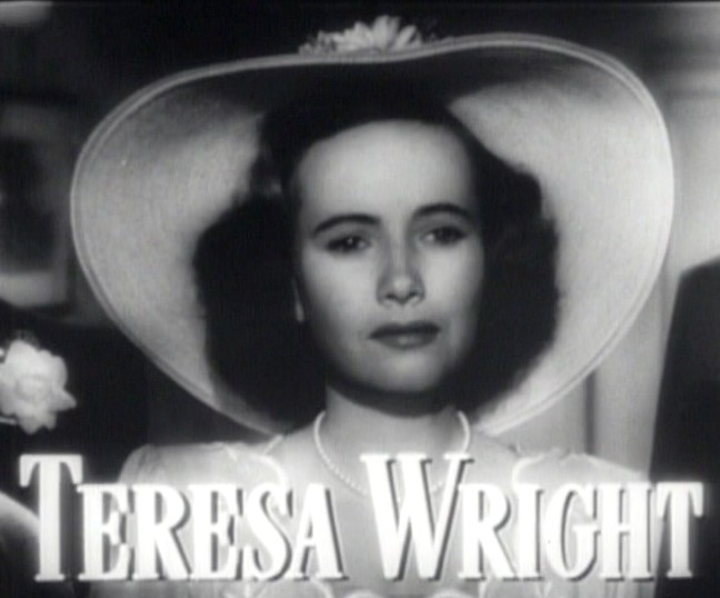 Cropped screenshot of Teresa Wright from the trailer for the film The Best Years of Our Lives.